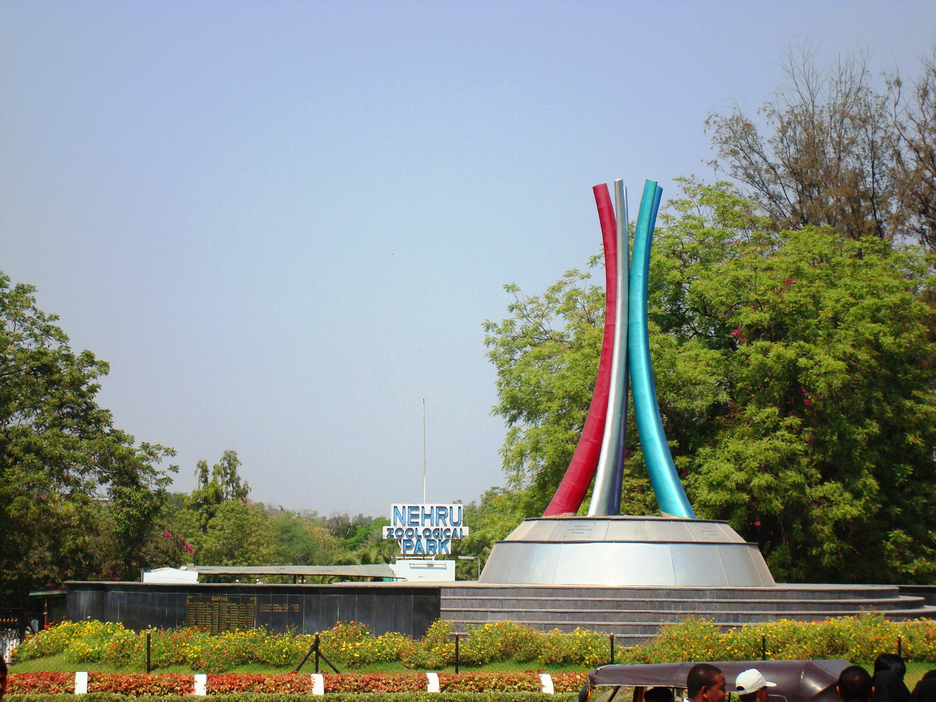 The Nehru Zoological park at Hyderabad, the only zoo park in the city.